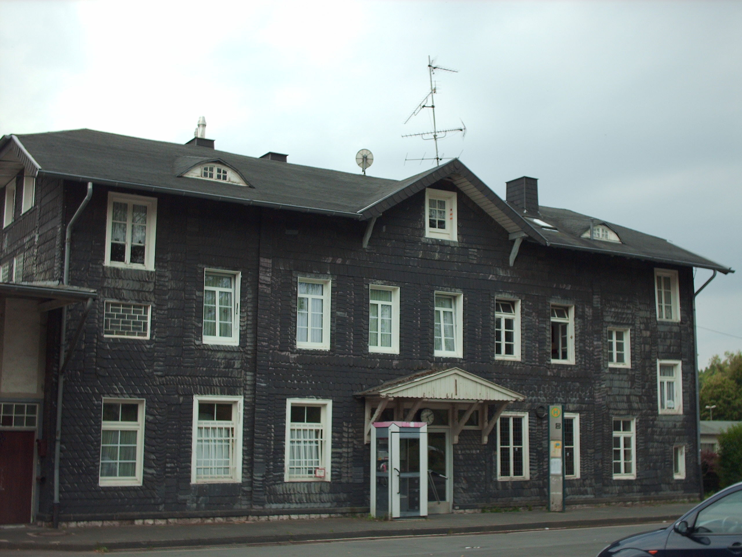 Blankenheim (Wald) station, Blankenheim, Germany check usage